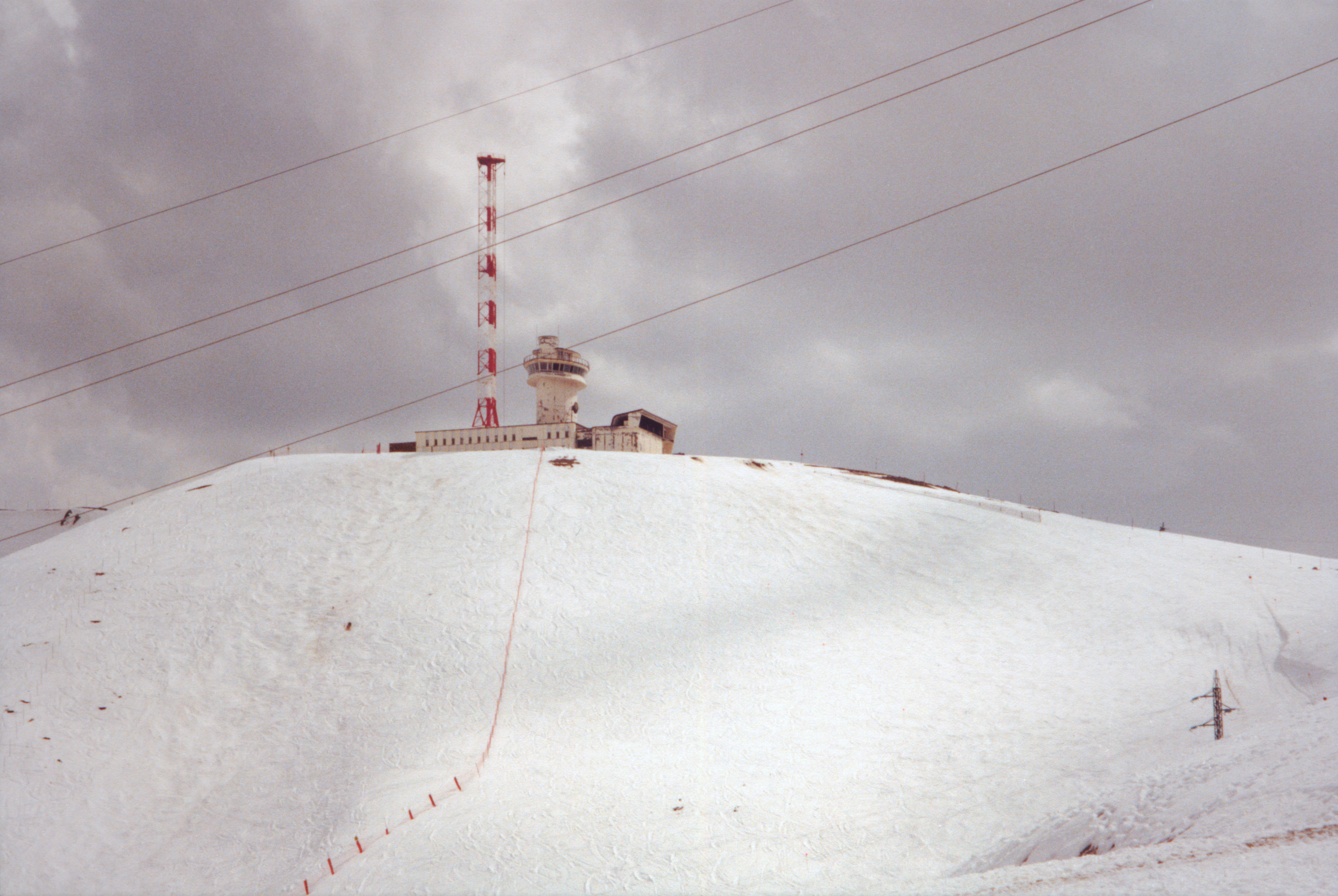 Summit of the 2650 m high Pic Blanc in the Pyrenees (Andorra).